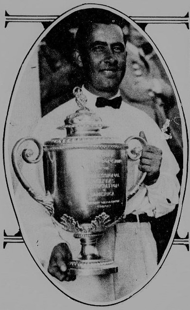 New Champion Golf "Pro" of the U. S., Walter Hagen, holding the coveted silver cup emblematic of professional golf championship of the United States for 1921, which be won by a wonderful conquest over the course of the Inwood Country Club, Long Island, when he defeated his old rival, Jim Barnes, the national open champion, in the finals by three up and two to play.